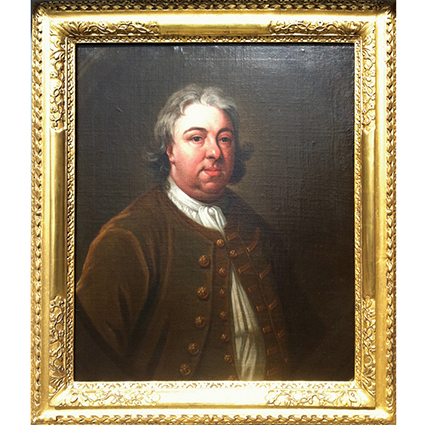 Portrait of Alexader Pendarves (1662 – 1725) of Roskrow Castle, Cornwall